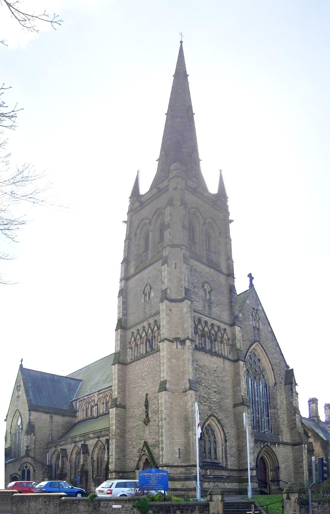 Lancaster Cathedral